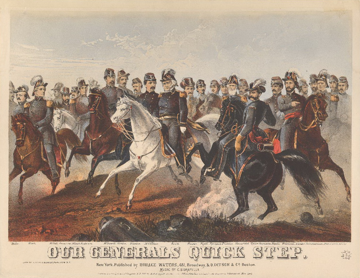 Cover Sheet of "Our Generals Quick Step" by Claudio S. Grafulla